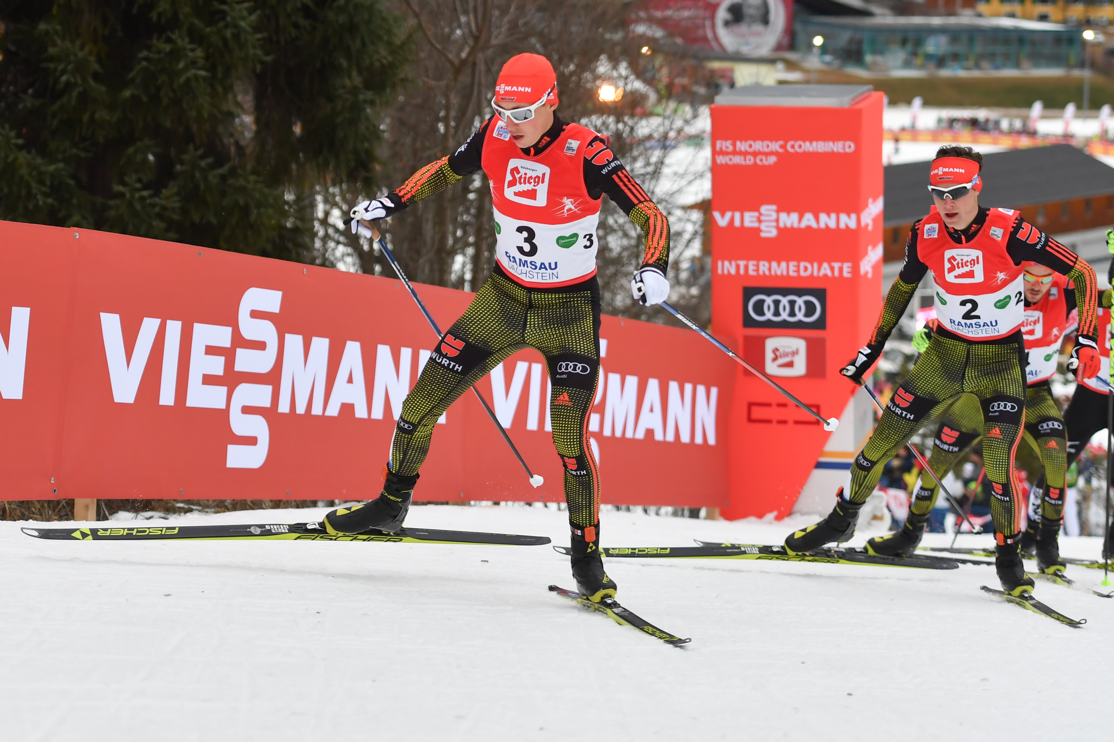 FIS World Cup Nordic Combined, Ramsau/Austria, 2016-12-16 to 2016-12-18.